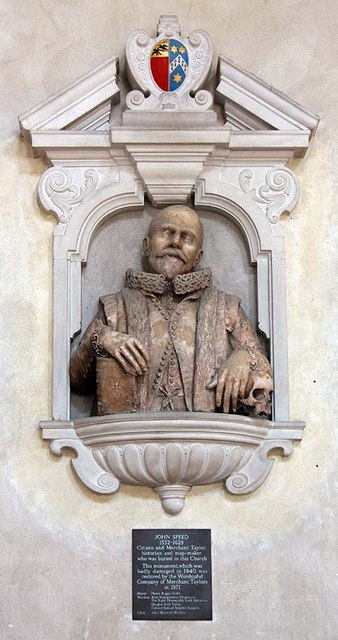 St Giles, Cripplegate, London EC2 - Wall monument, near to London, City of London, Great Britain.